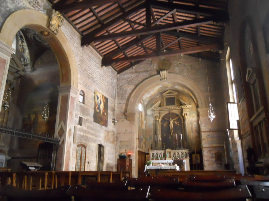 Verona San Giovanni in Foro, interior